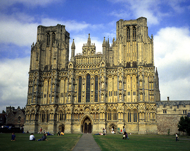 "Head On" View of Wells Cathedral. Nothing is plumb anymore; but the 300 carved figures are all standing upright!